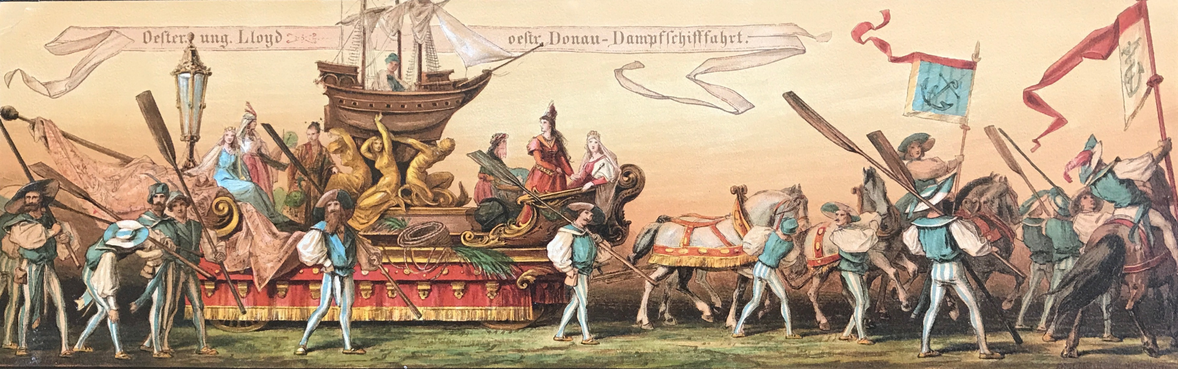 Lithography of the festive procession in honor to the 25th wedding anniversary of the imperial couple of Austria with the representation of the Austrian Lloyd